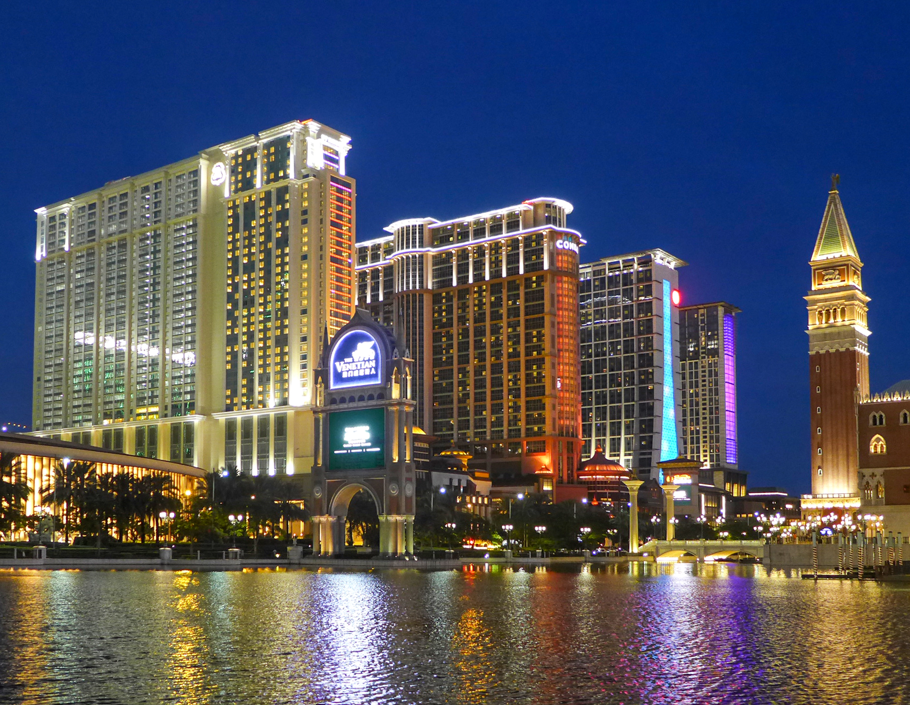 Sands Cotai Central Night view